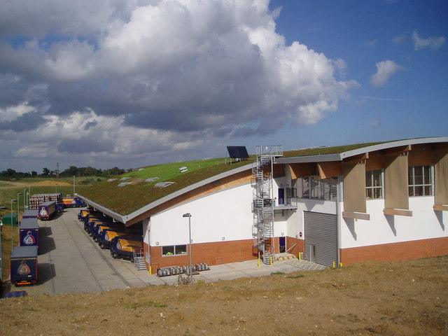 Adnams Brewery Distribution Centre opened 2006 Environmentally-friendly building with sedum roof and solar panels. Using a former sand and gravel quarry.